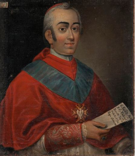 Cardinale Tommaso Bernetti, Secretary of State of the Papal States